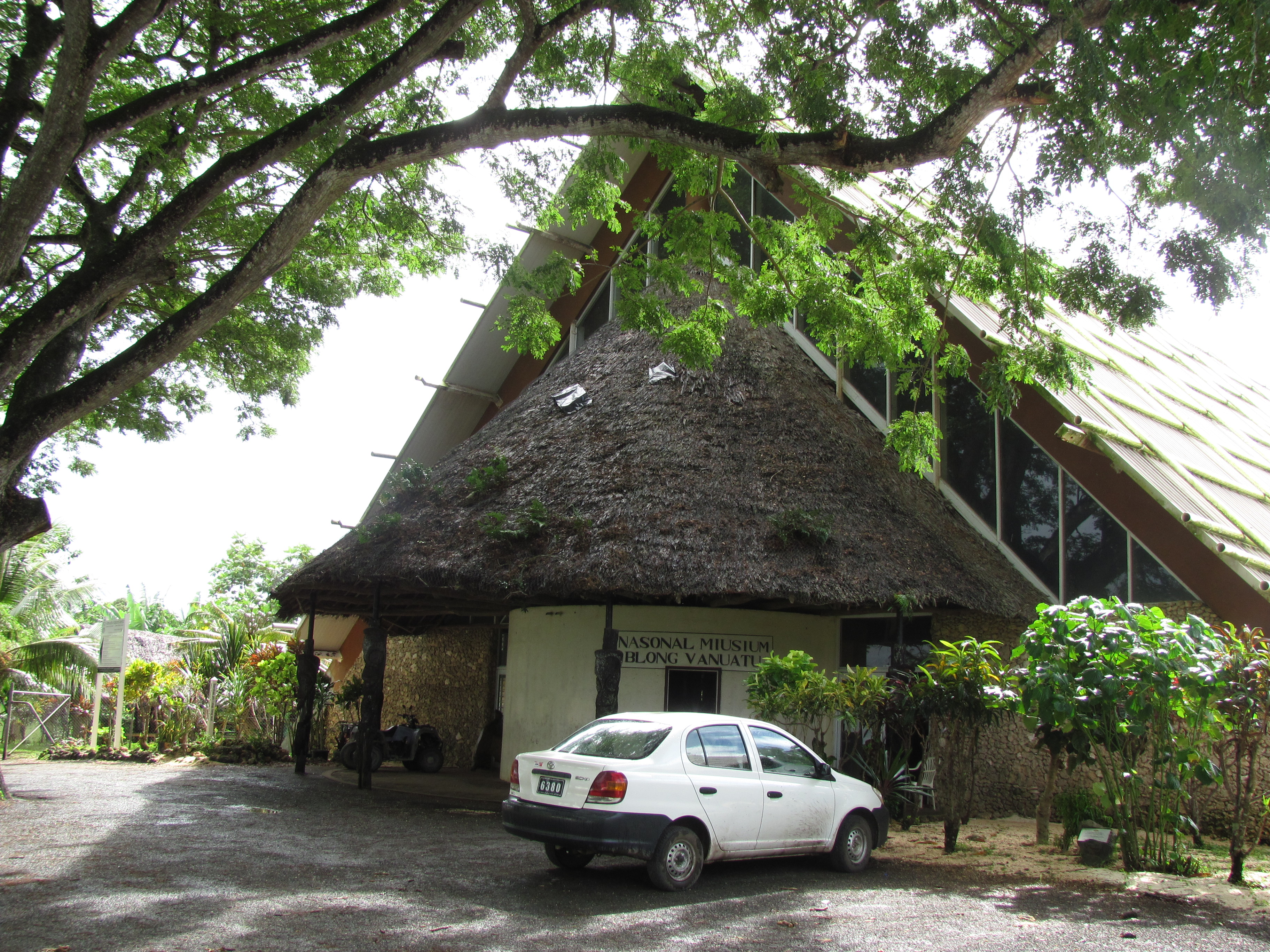 National Museum, Port Vila, Vanuatu